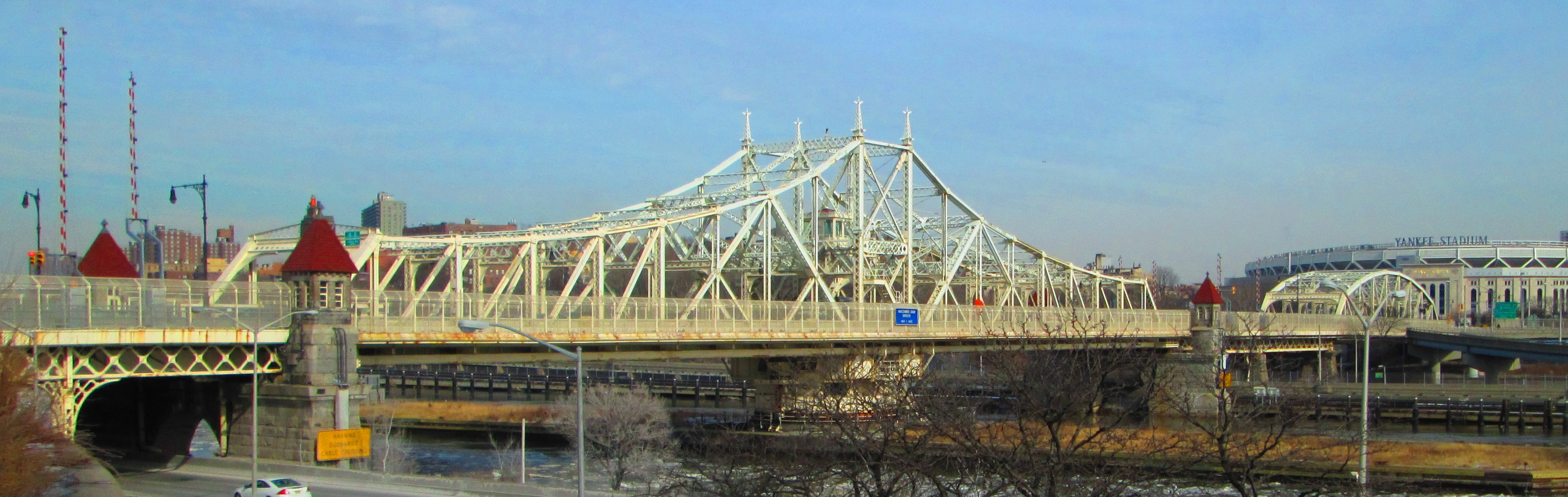 The Macombs Dam Bridge is a swing bridge that spans the Harlem River in New York City, connecting the boroughs of Manhattan and the Bronx near Yankee Stadium. Built in 1890-95 and designed by consulting engineer Alfred Pancoast Boller, it is the third-oldest bridge in New York City.